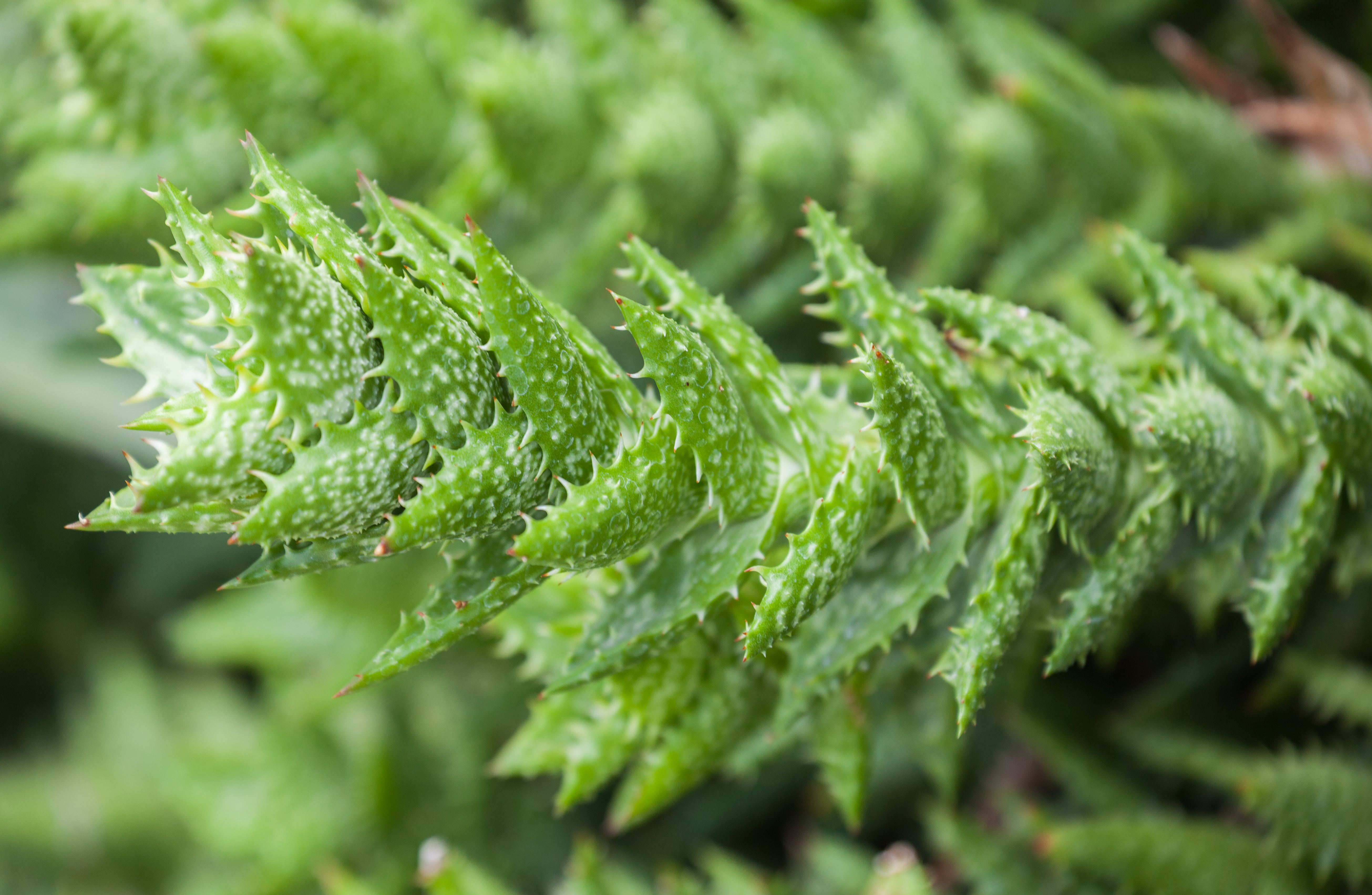 Aloe juvenna, Munich Botanical Garden, Germany